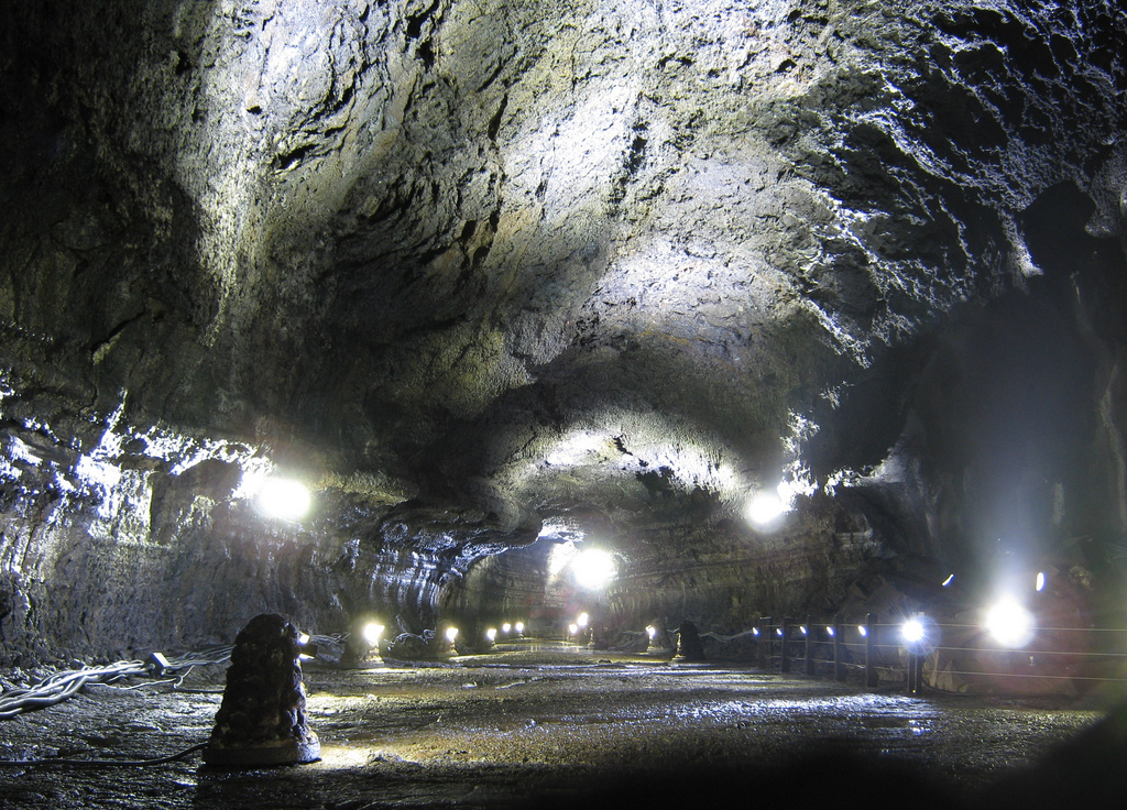 One of the caverns (large sections) of the lava tube. Jeju Island, South Korea.